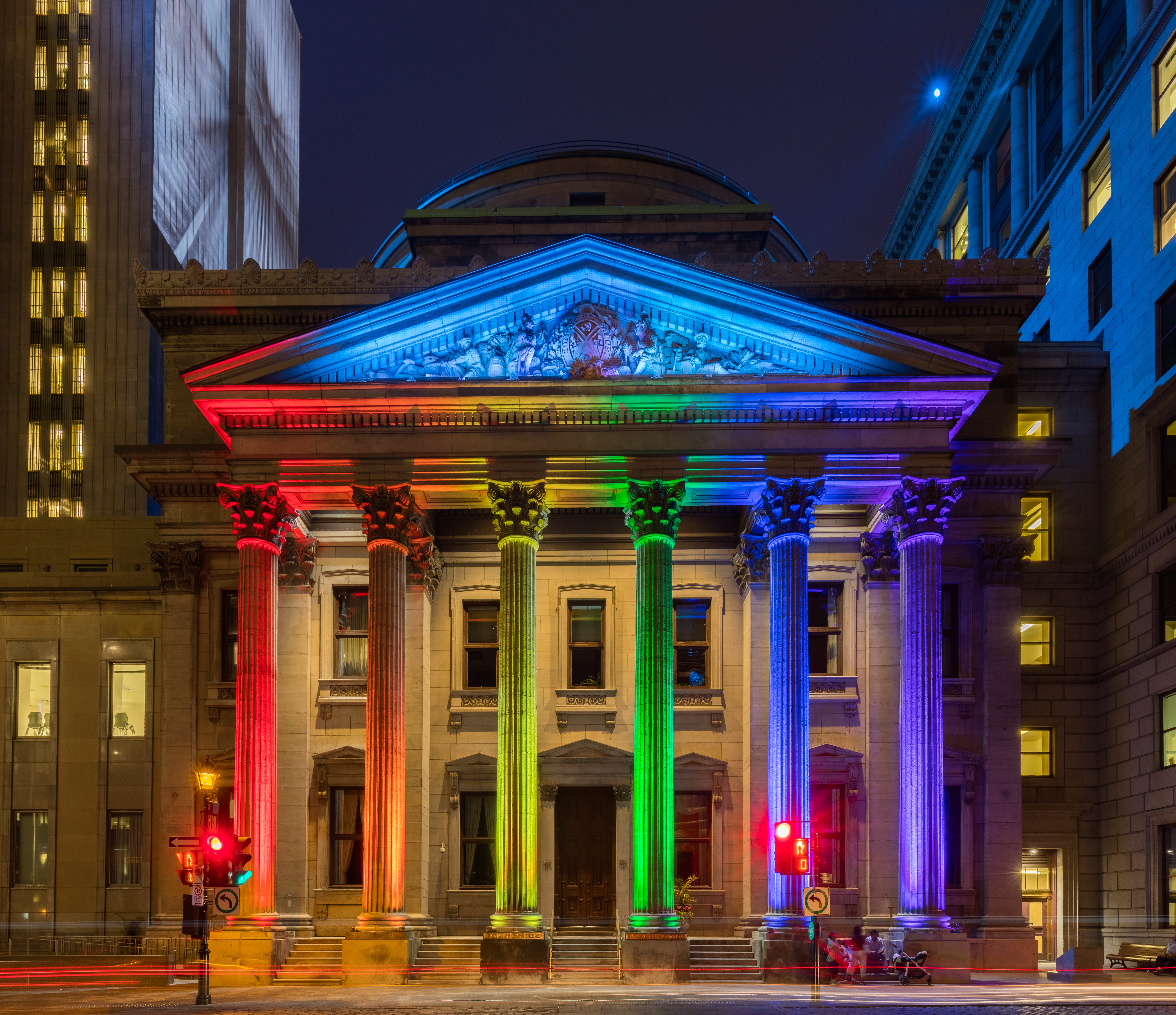 Bank of Montreal Main Montreal Branch, Canada